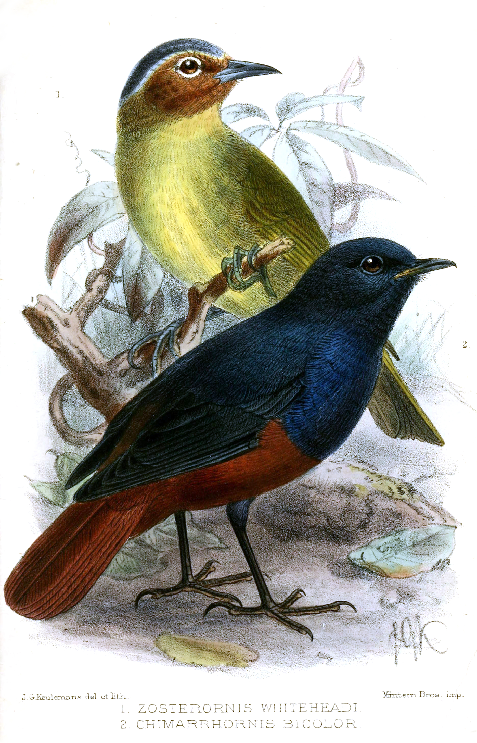 Zosterornis whiteheadi Chimarrhornis bicolor = Rhyacornis bicolor